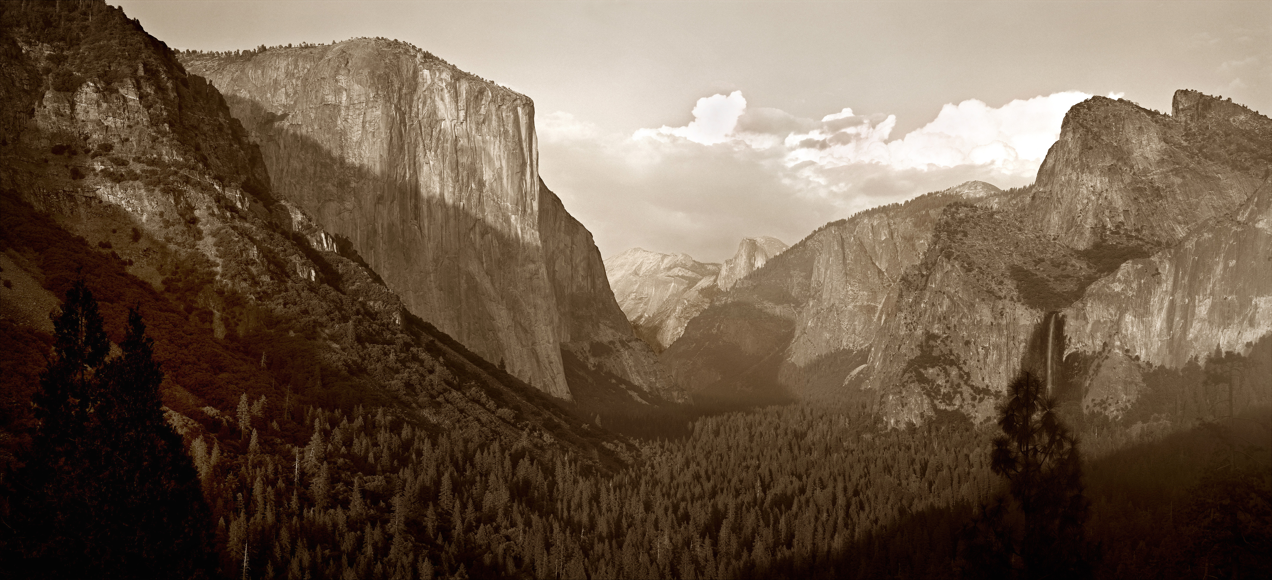 Yosemite Valley, 8x10 Negative, 1999